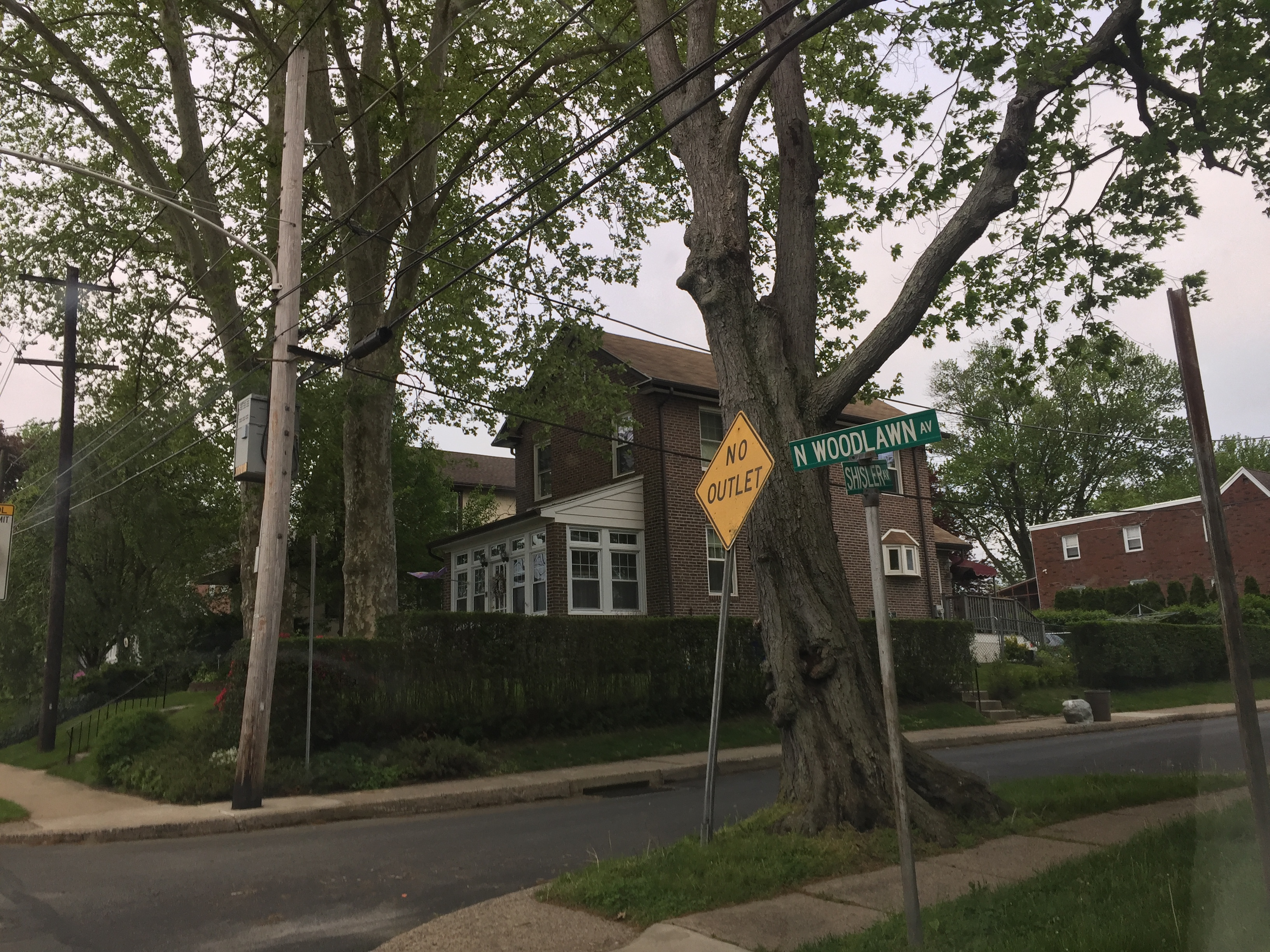 Shisler station